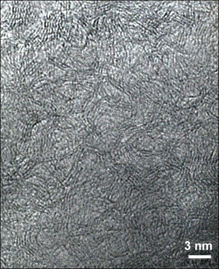 TEM picture of glassy carbon. Thanks to the photographer for transfer of all rights to me (Anton, 2006).